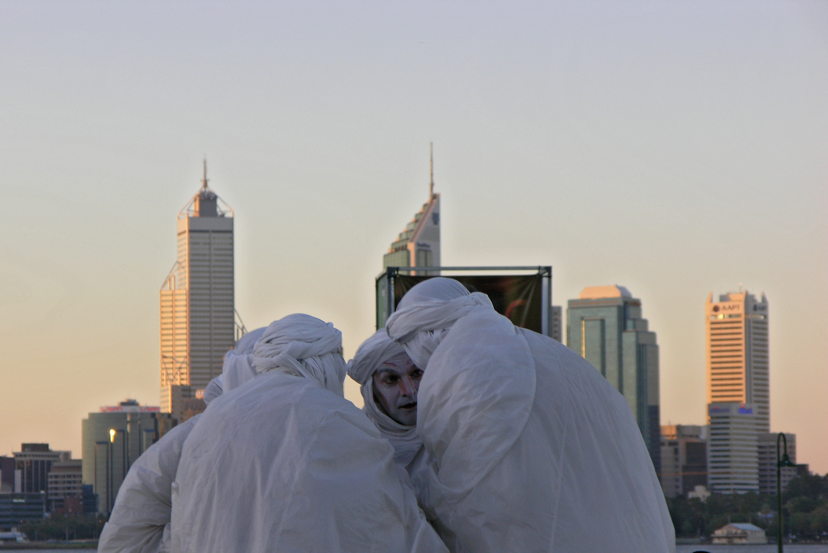 Street performers at an African music concert in South Perth. Taken by me for this